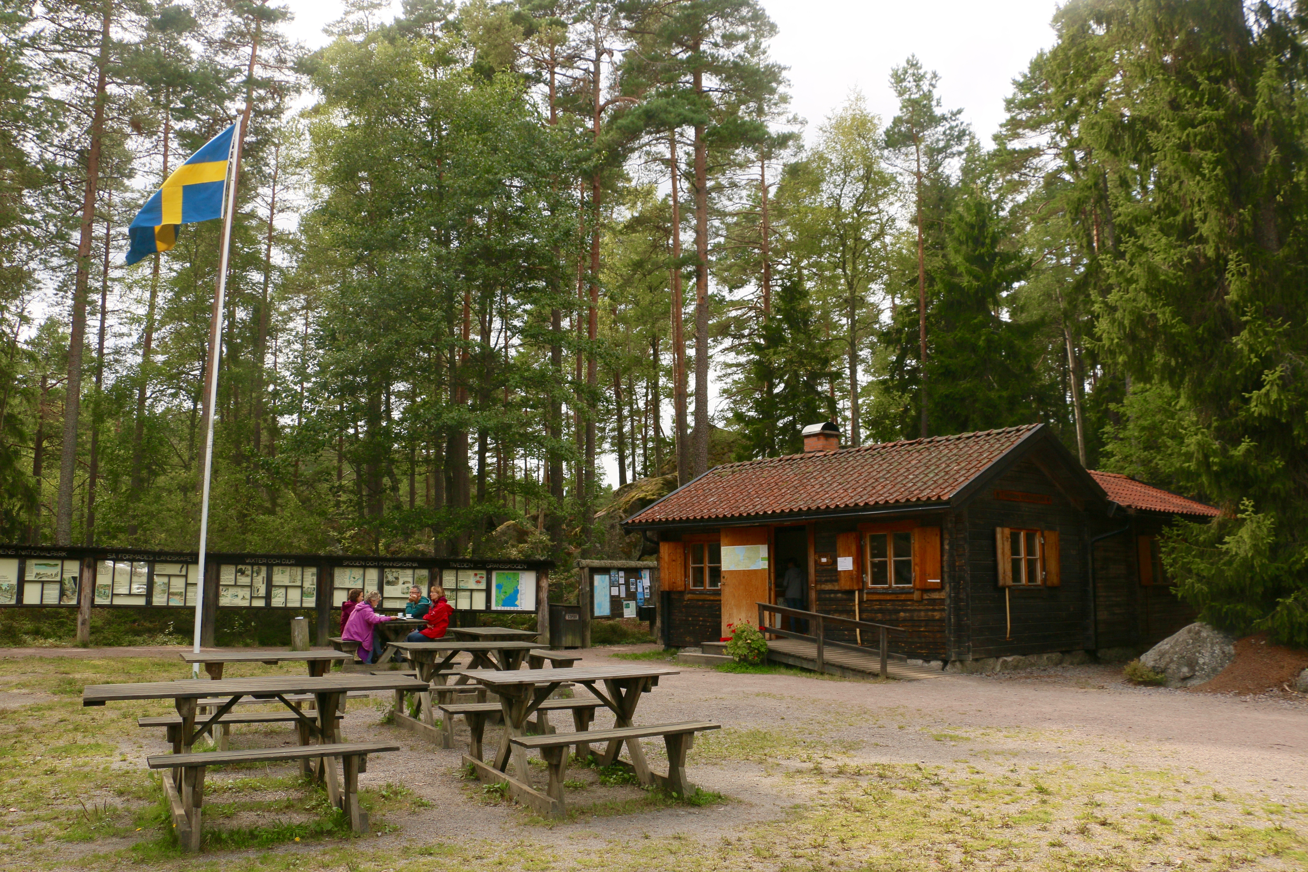 Entrance of Tiveden national park